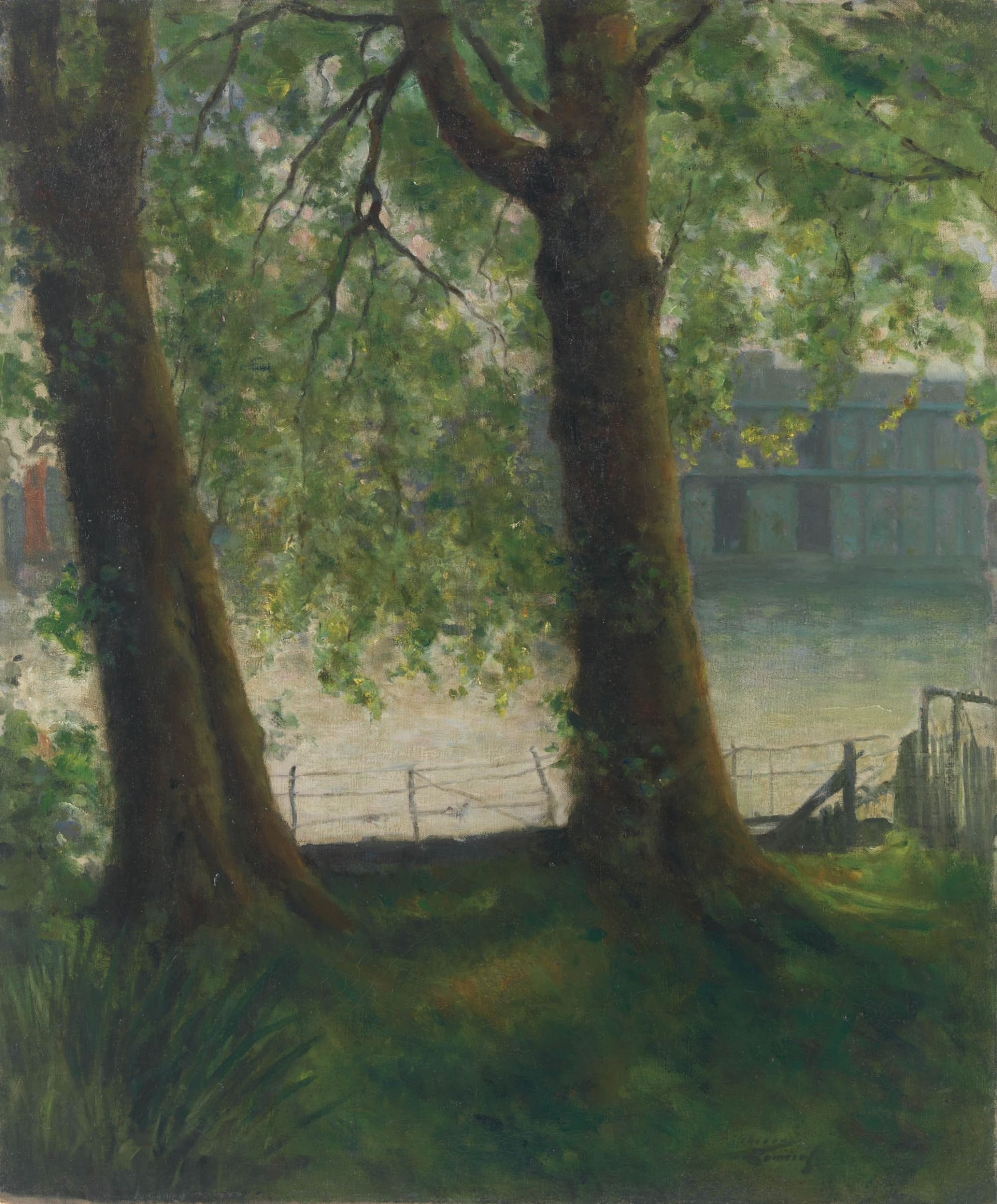 The Thames at Hurlingham